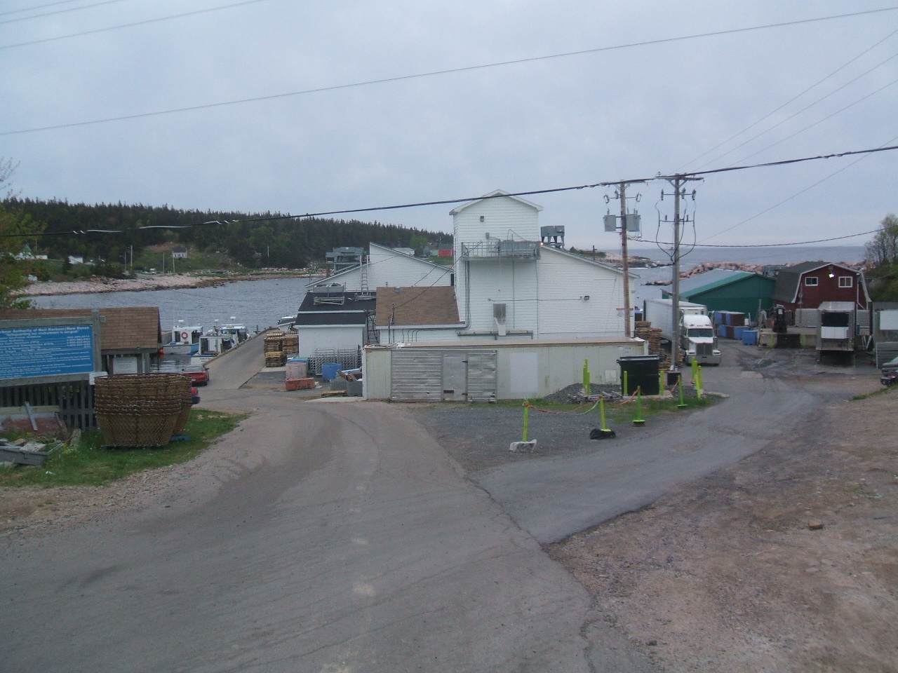 Victoria Co-Op Fisheries Ltd., Neil's Harbour, NS